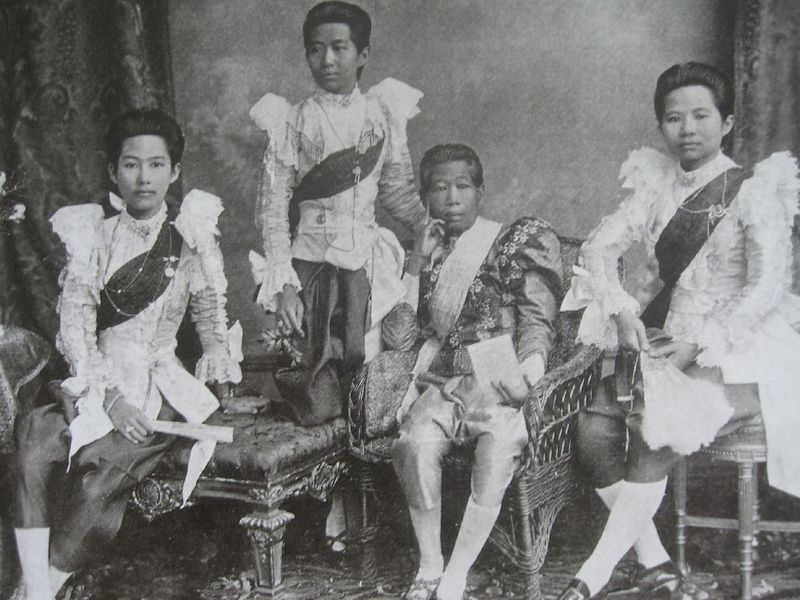 Consort Samlee (wife of King Mongkut (Rama IV) of Siam) and daughters.